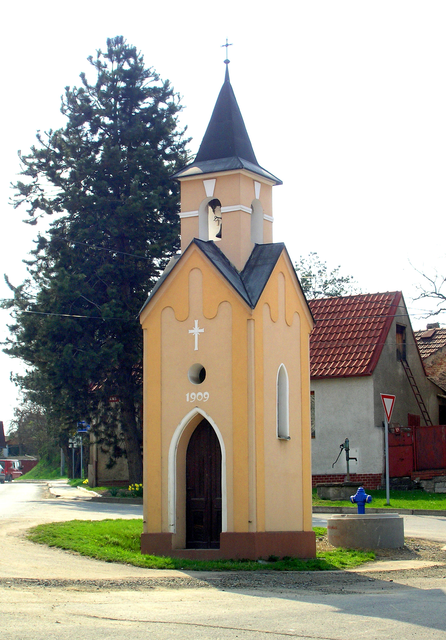 Bell tower in Mírovice, part of Veleň village, Czech Republic